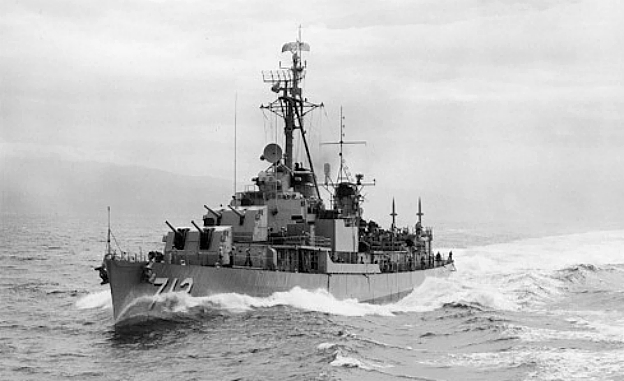 The U.S. Navy guided missile destroyer USS Gyatt (DDG-712) comes alongside the destroyer escort USS Willis (DE-1027), not visible, during training exercises near Guantanamo Bay, Cuba, on 14 May 1957. Nine days later, Gyatt was redesignated "DDG-1".